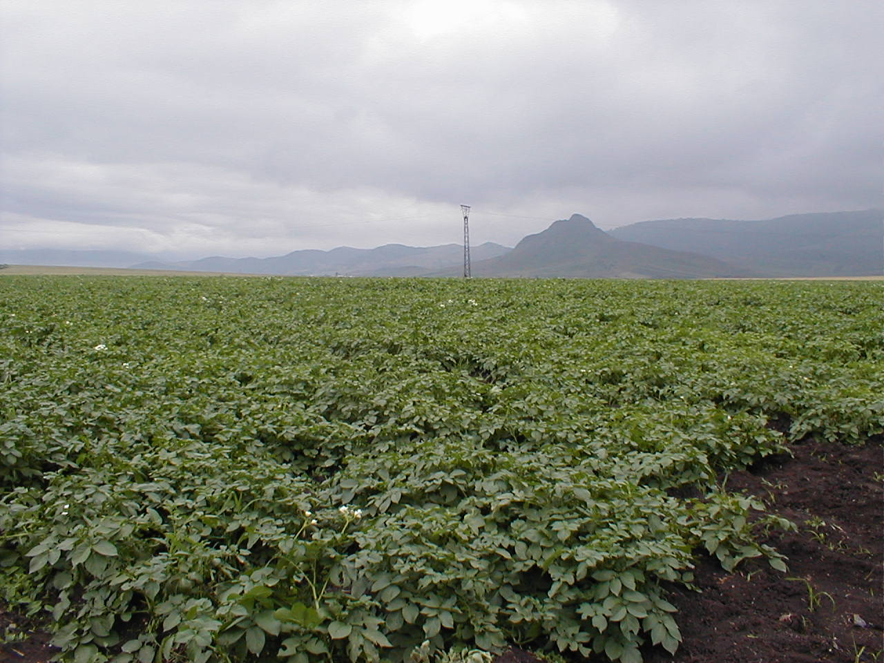 Tomato fields.